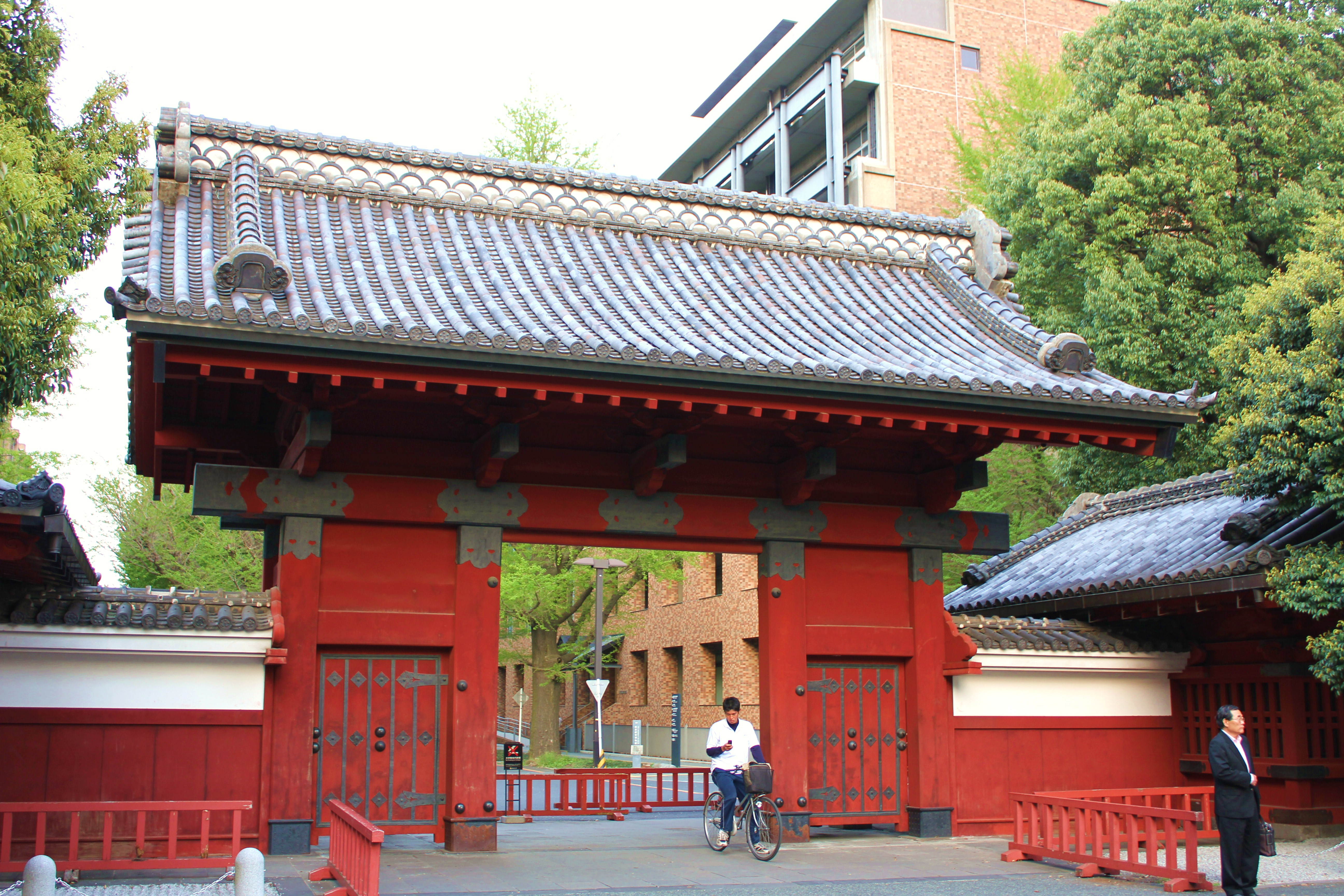 Akamon (red gate) on the HOngo campus, University of Tokyo, Japan